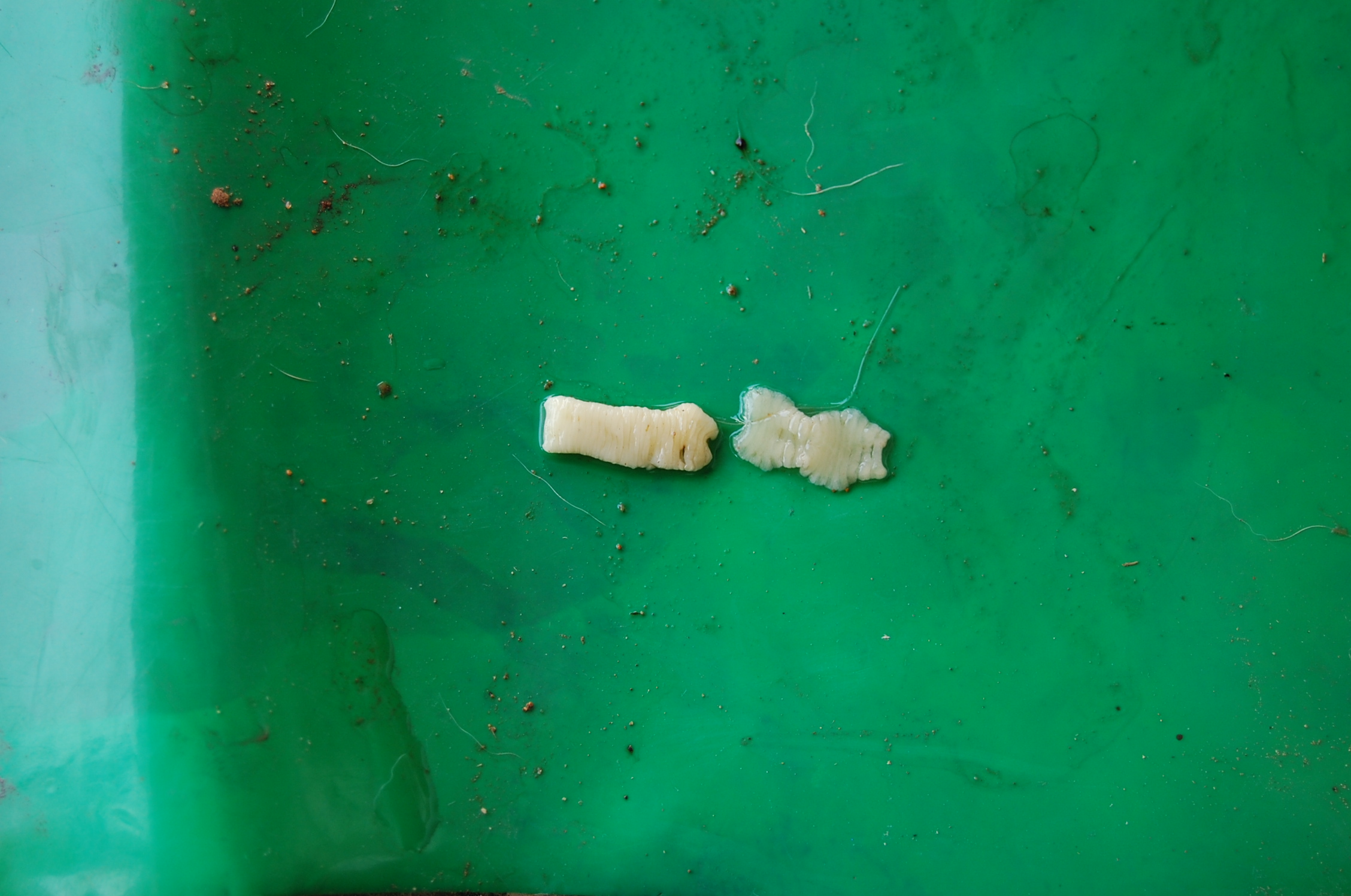 Moniezia tapeworm of sheep